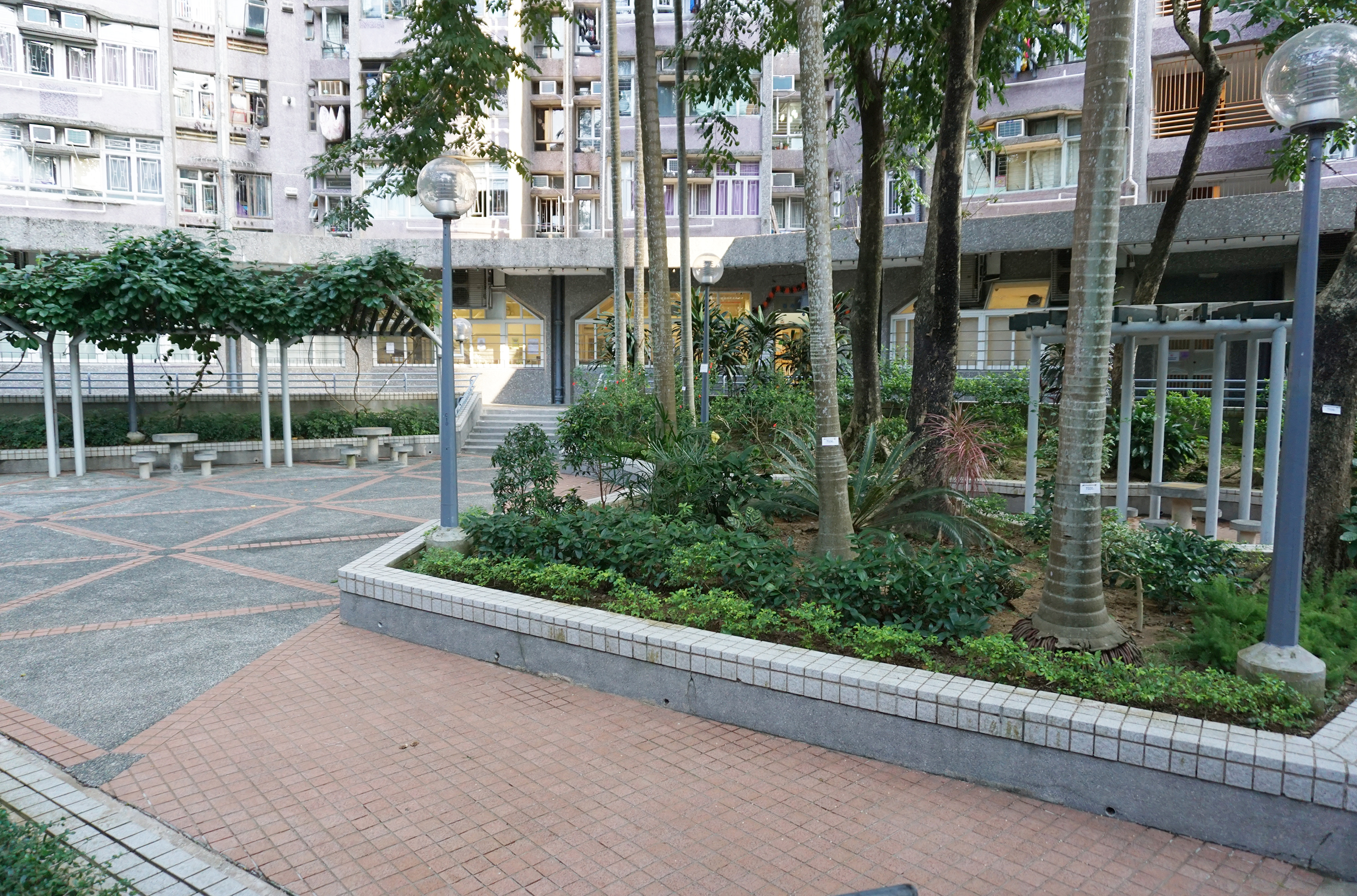 Kwong Lam Court in Siu Lek Yuen, Hong Kong.